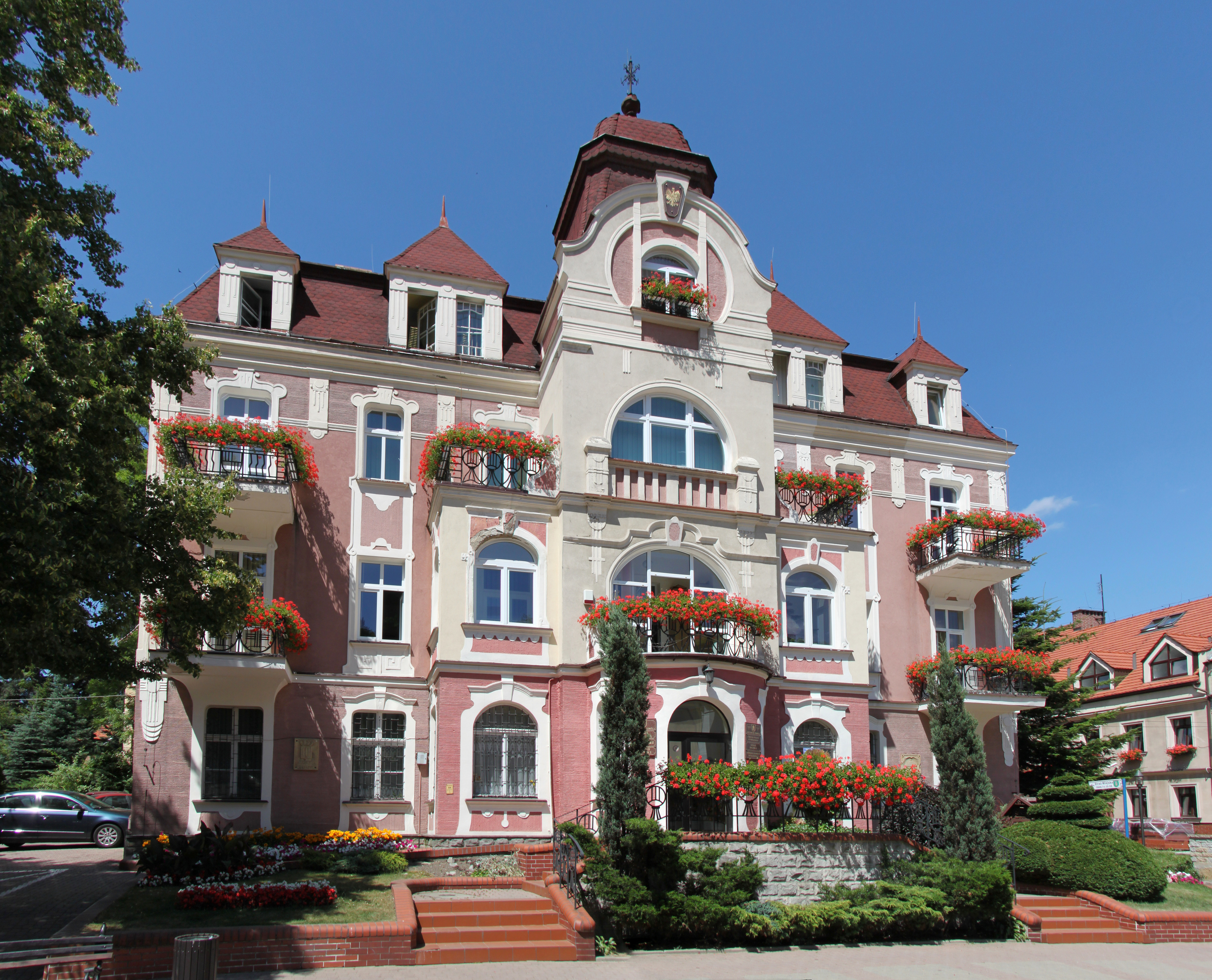 City hall in Szczawno-Zdrój, 17 Kościuszki Street.